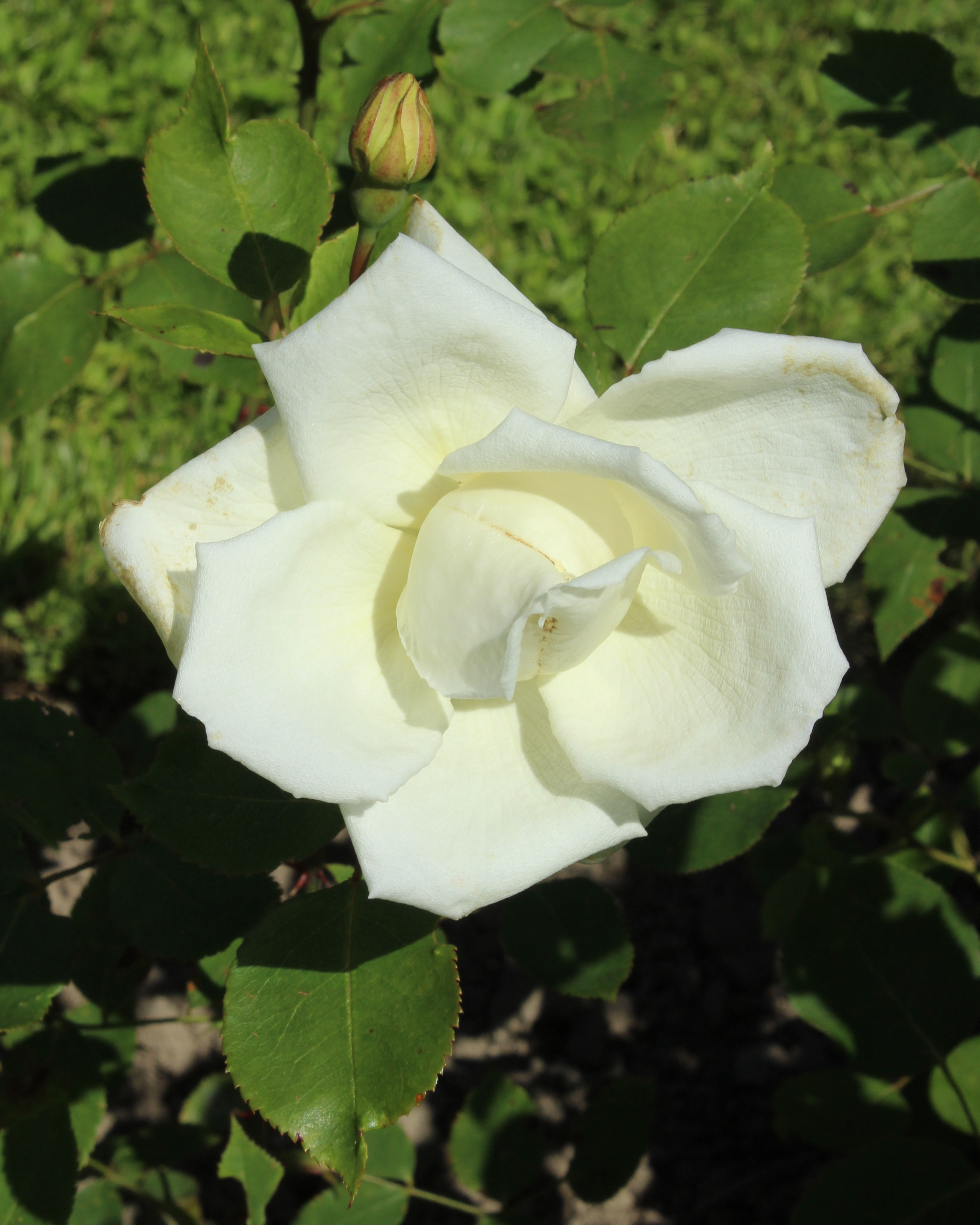 Rosa 'Kaiserin Auguste Viktoria' in the Rosarium Baden in the Doblhoffpark in Baden bei Wien. Identified by sign.